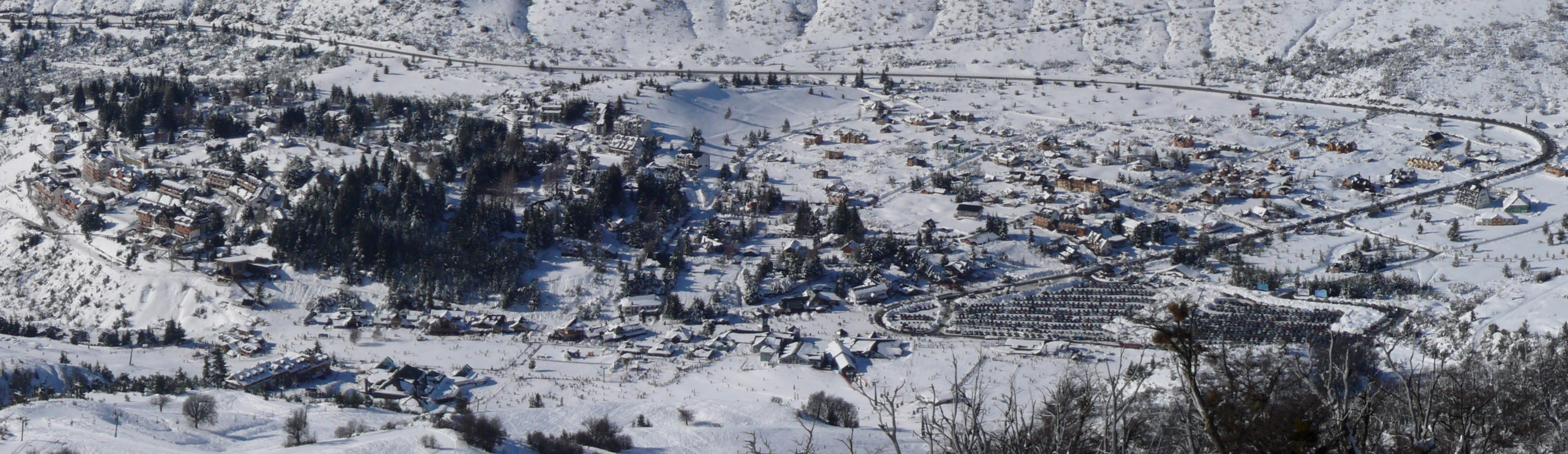 Panorama of Cerra Catedral ski resort in winter